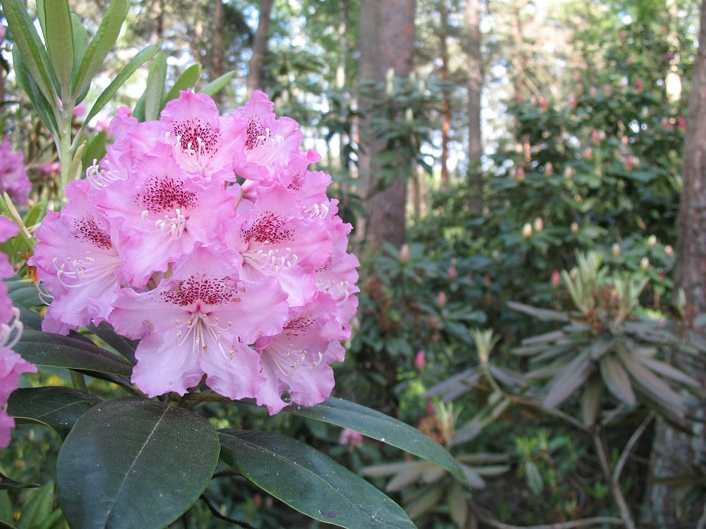 View from the "Rodopuisto" or "Alppiruusupuisto" (Rhododendron park), located in Etelä-Haaga, Helsinki. This park with several hundreds of Rhododendron was formed as it was found that the testing area of winter tolerant Rhododendron types for the Finnish climate (research occurred mostly in the 1970ies and 1980ies) became popular by the local people.